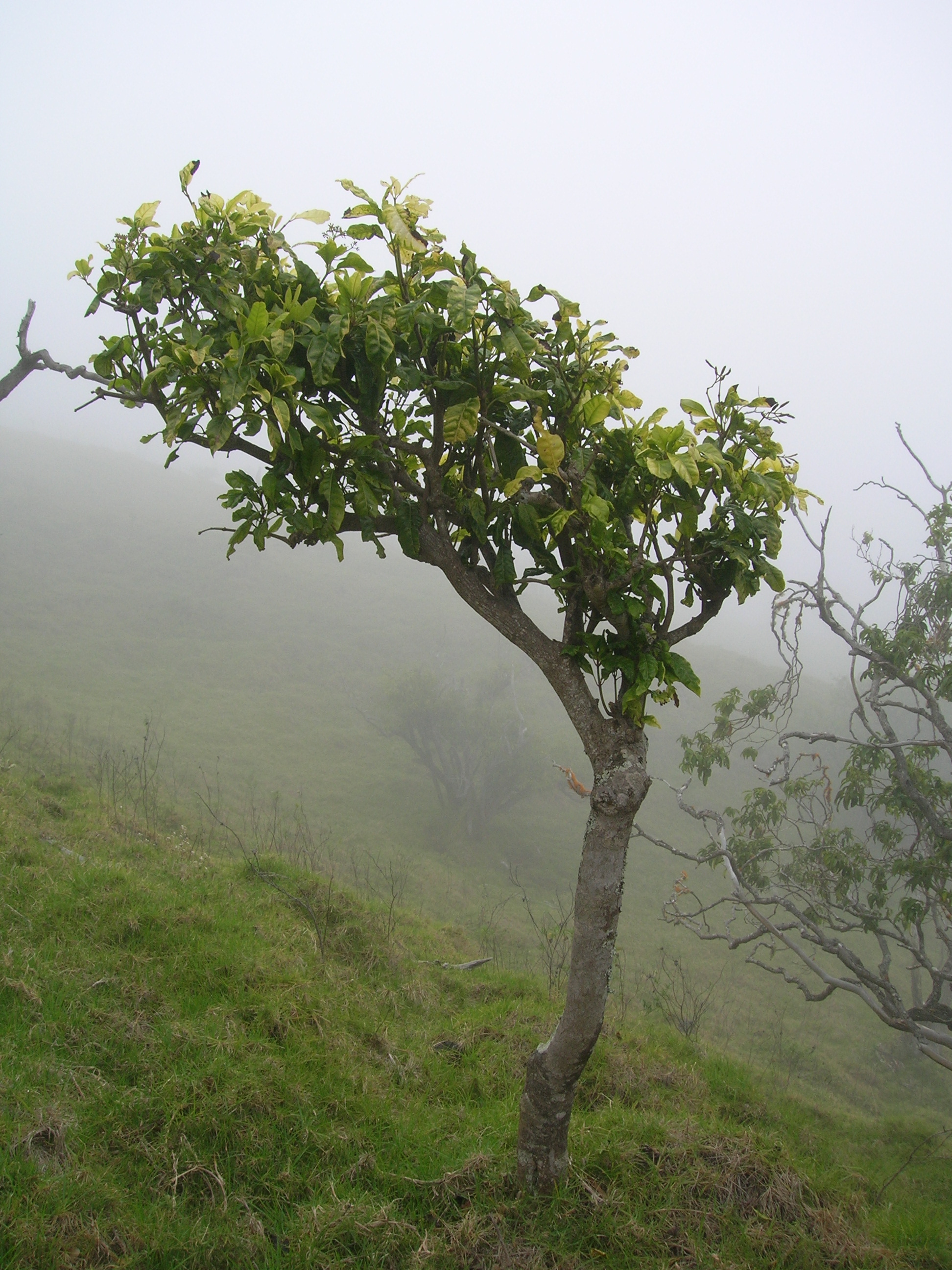 Pisonia brunoniana (habit). Location: Maui, Auwahi